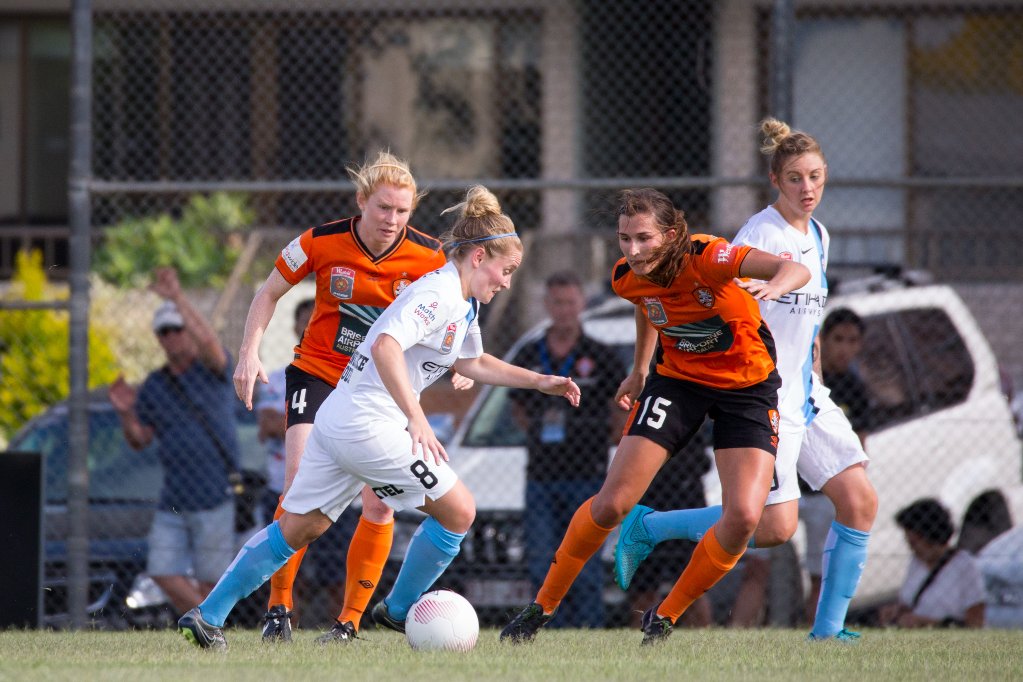 Kim Little and Ruth Blackburn